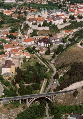 Veszprém, Hungary, aerialphotography